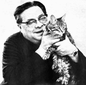 Italian actor Aldo Fabrizi and his cat.